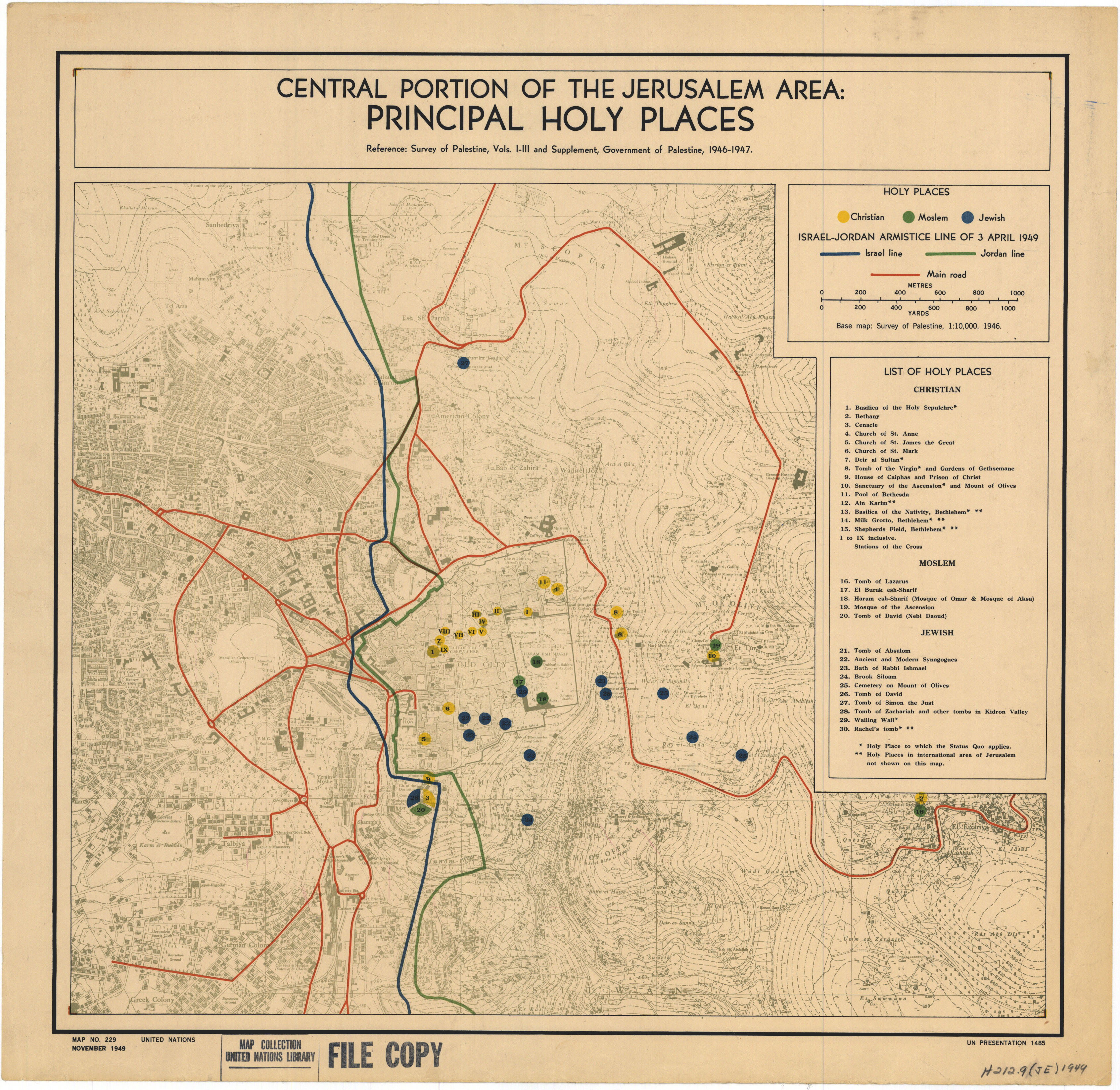 UN Map of Central Jerusalem November 1949 including Holy Places and Israel Jordan Armistice line of 3 April 1949